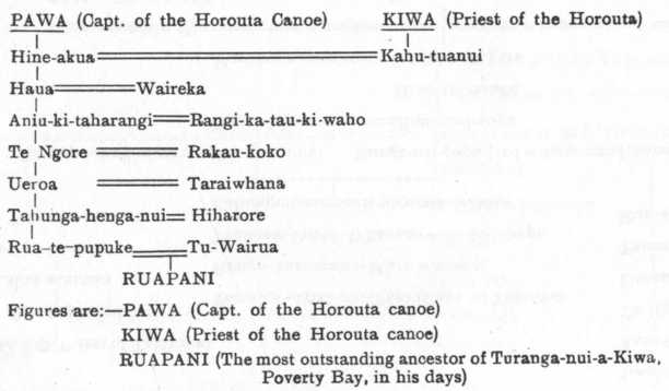 Whakapapa of Ruapani